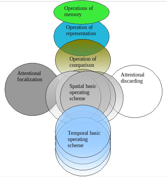 Cognitive operations. Based on information from Benedetti, G. (2005). "Basic mental operations which make up mental categories" (PDF).